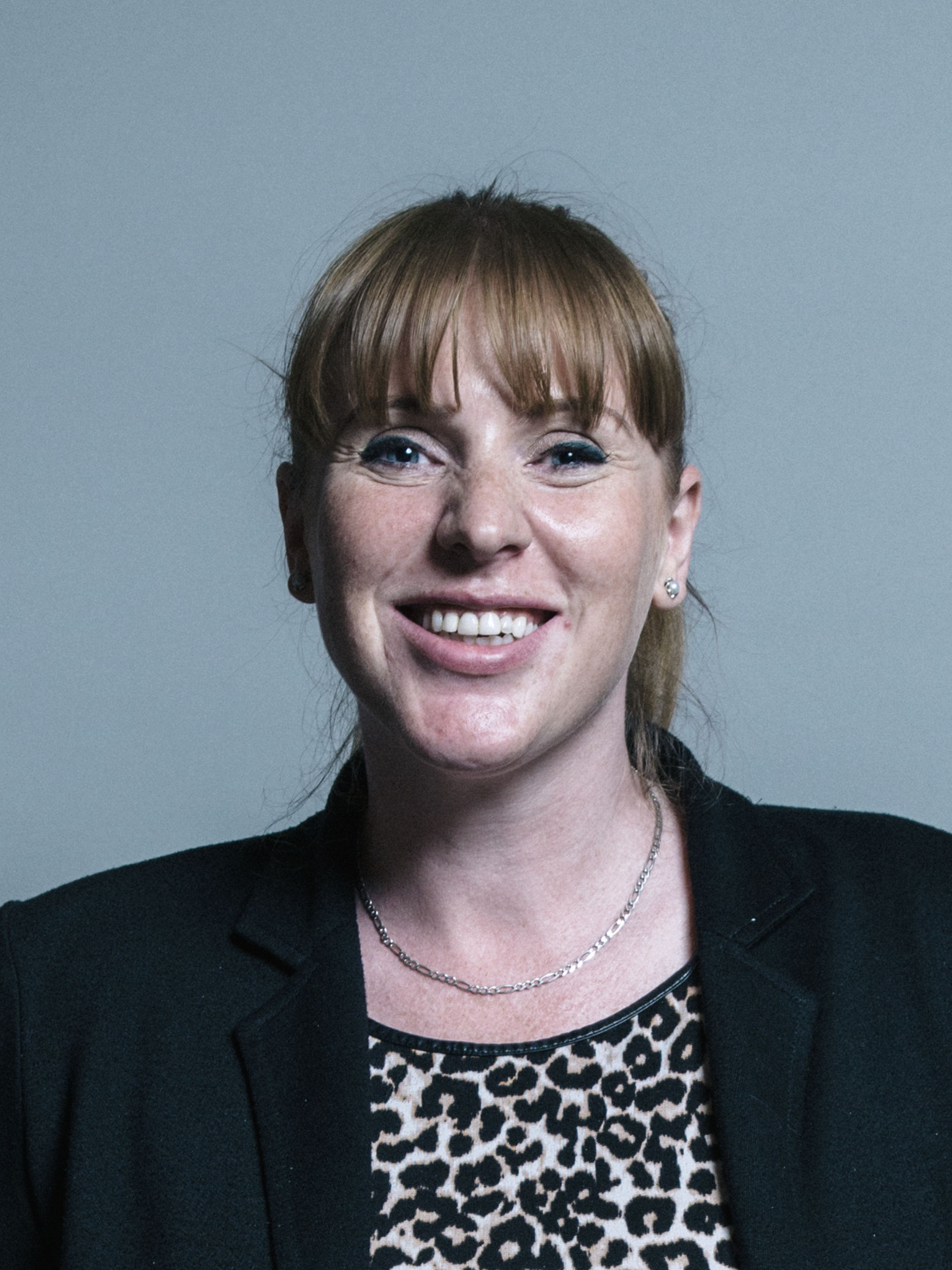 Official portrait of Angela Rayner